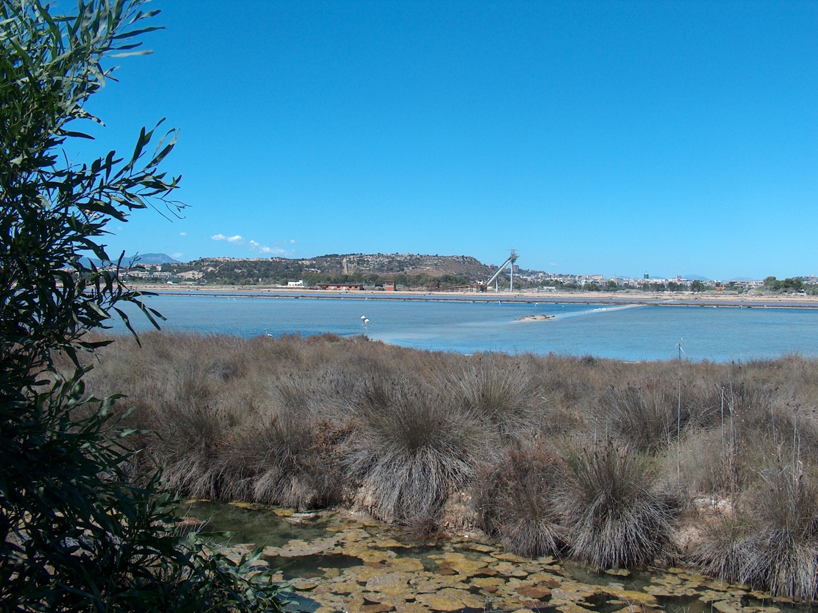 View of the salt-pond of Molentargius in Cagliari (Sardinia, Italy)